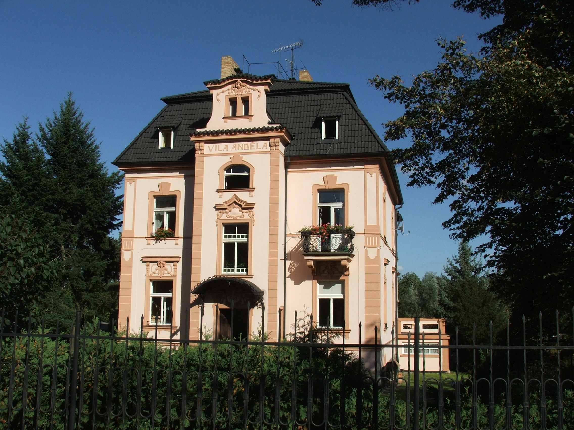 Černošice, Prague-West District, Central Bohemian Region, the Czech Republic. Zdeňka Lhoty street, Villa Anděla (1910). In Černošice are located many villas from the beginning of 20th Century.